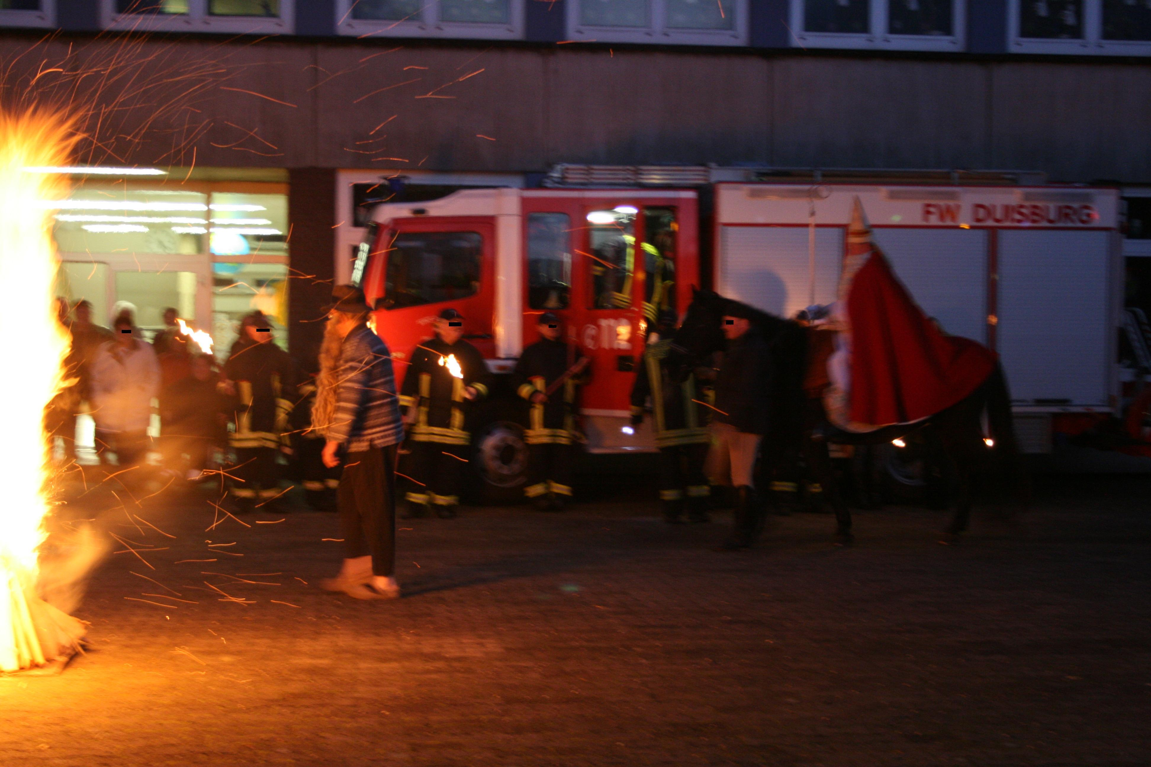 The voluntary fire brigade accompanied in Duisburg the St. Martin's moves, in this case in the district Mündelheim